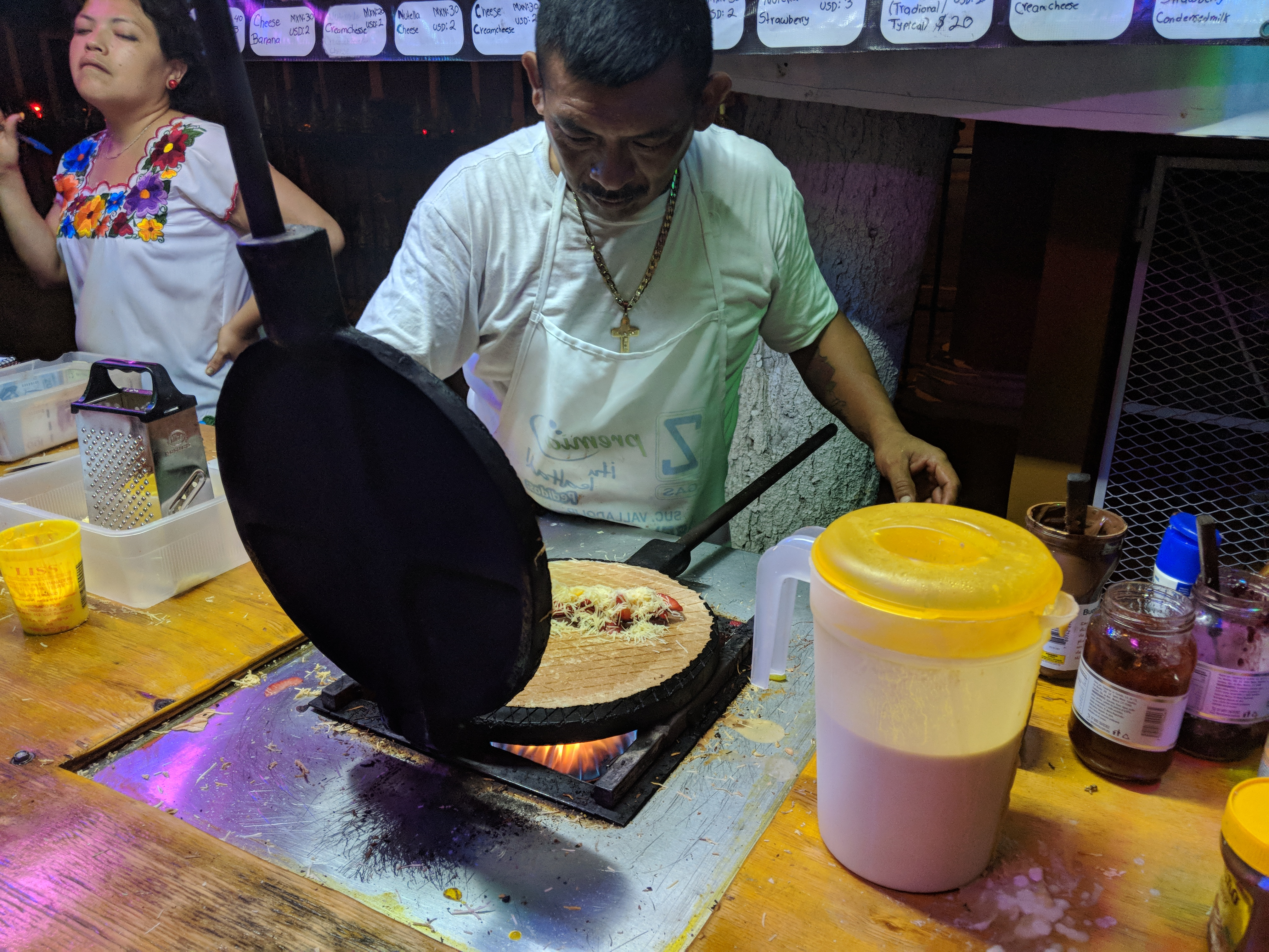 Yucatecan crepes from el tío Batman, Valladolid, Yucatán, Mexico.